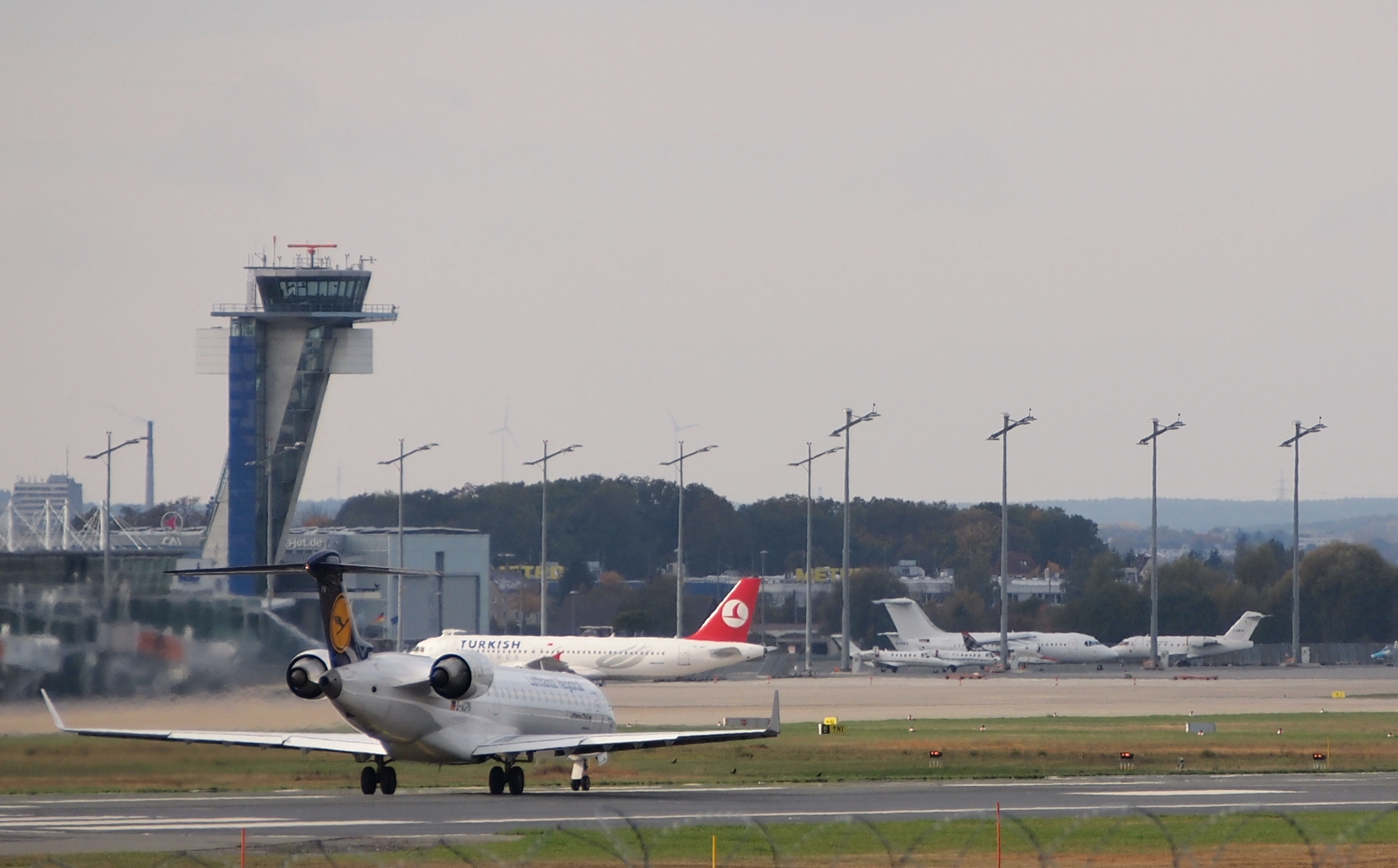 Lufthansa CRJ700 during takeoff at Nuremberg airport.